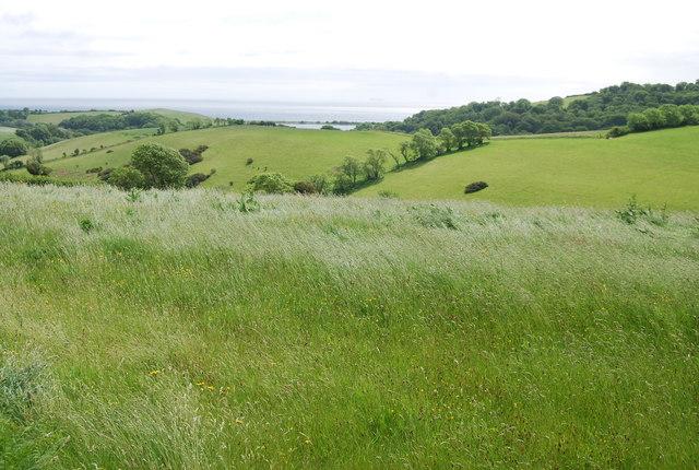 The Castle